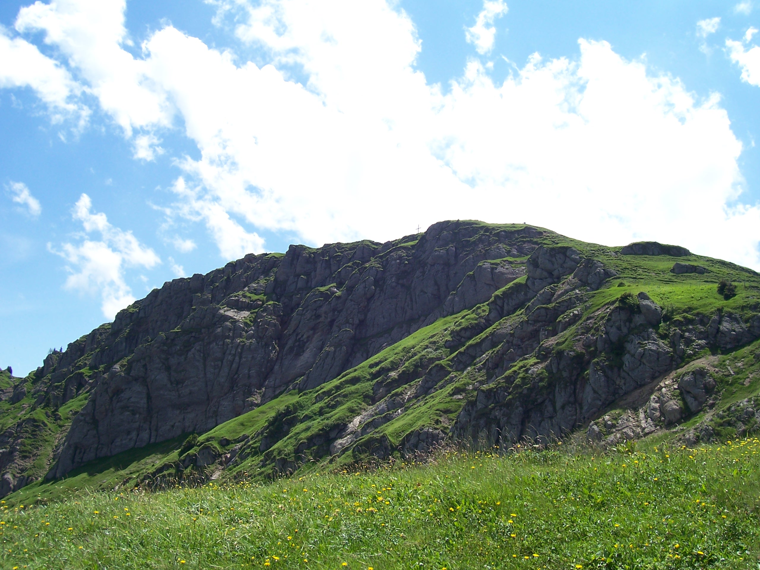 Stuiben, 1749 m